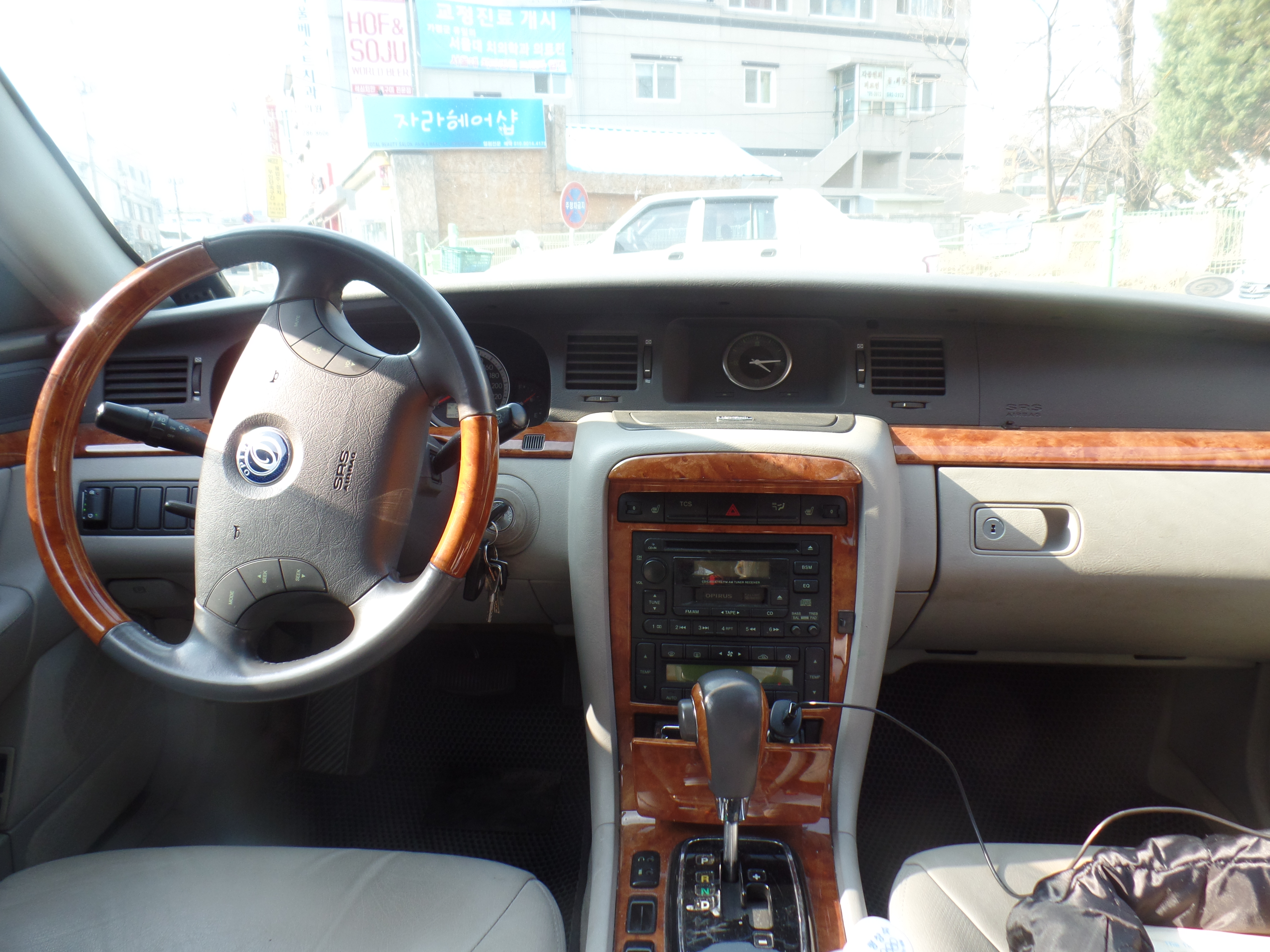 Kia Opirus Dashboard